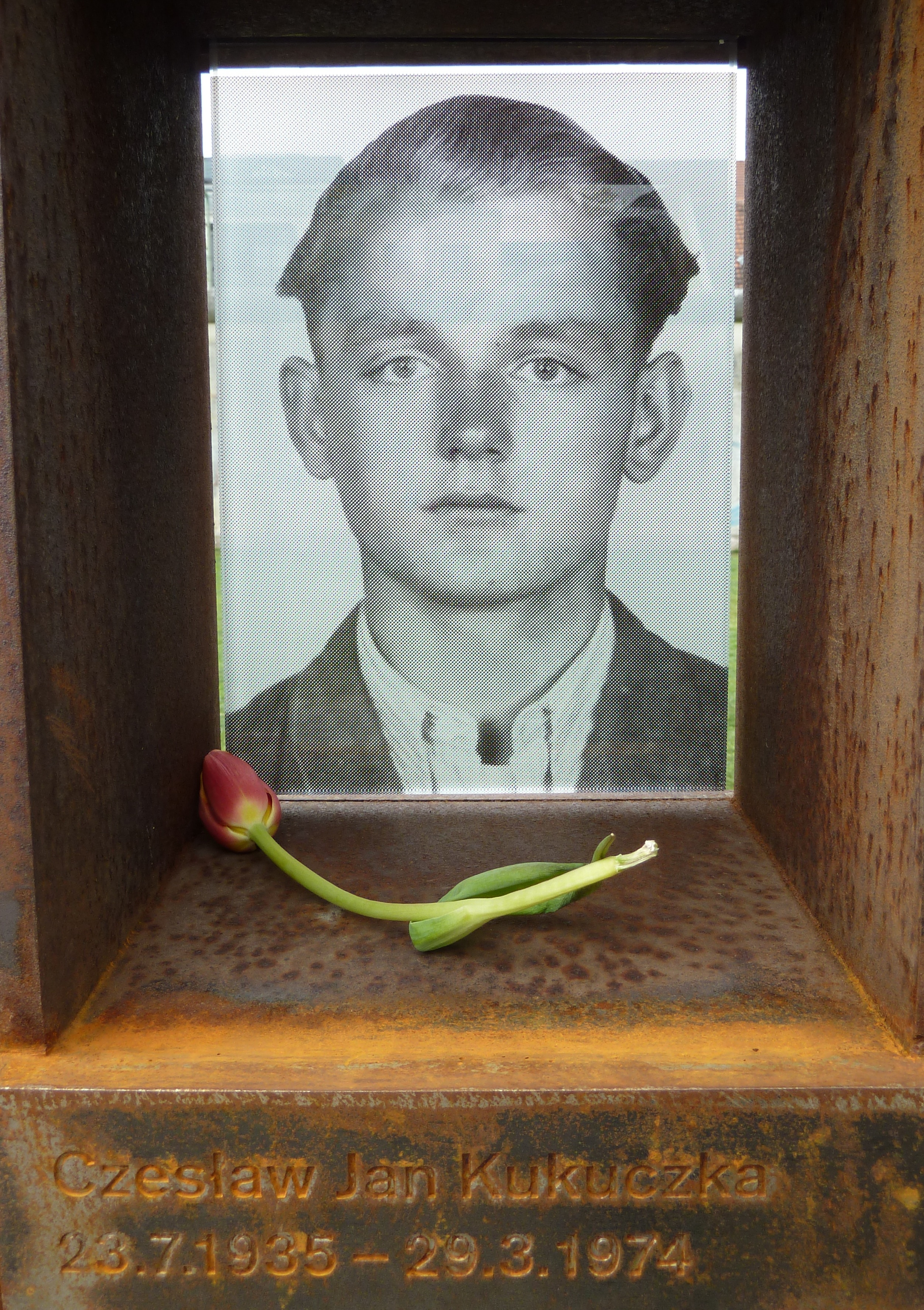 Czesław Kukuczka at the Wall of Rememberance, Bernauer Straße, Berlin